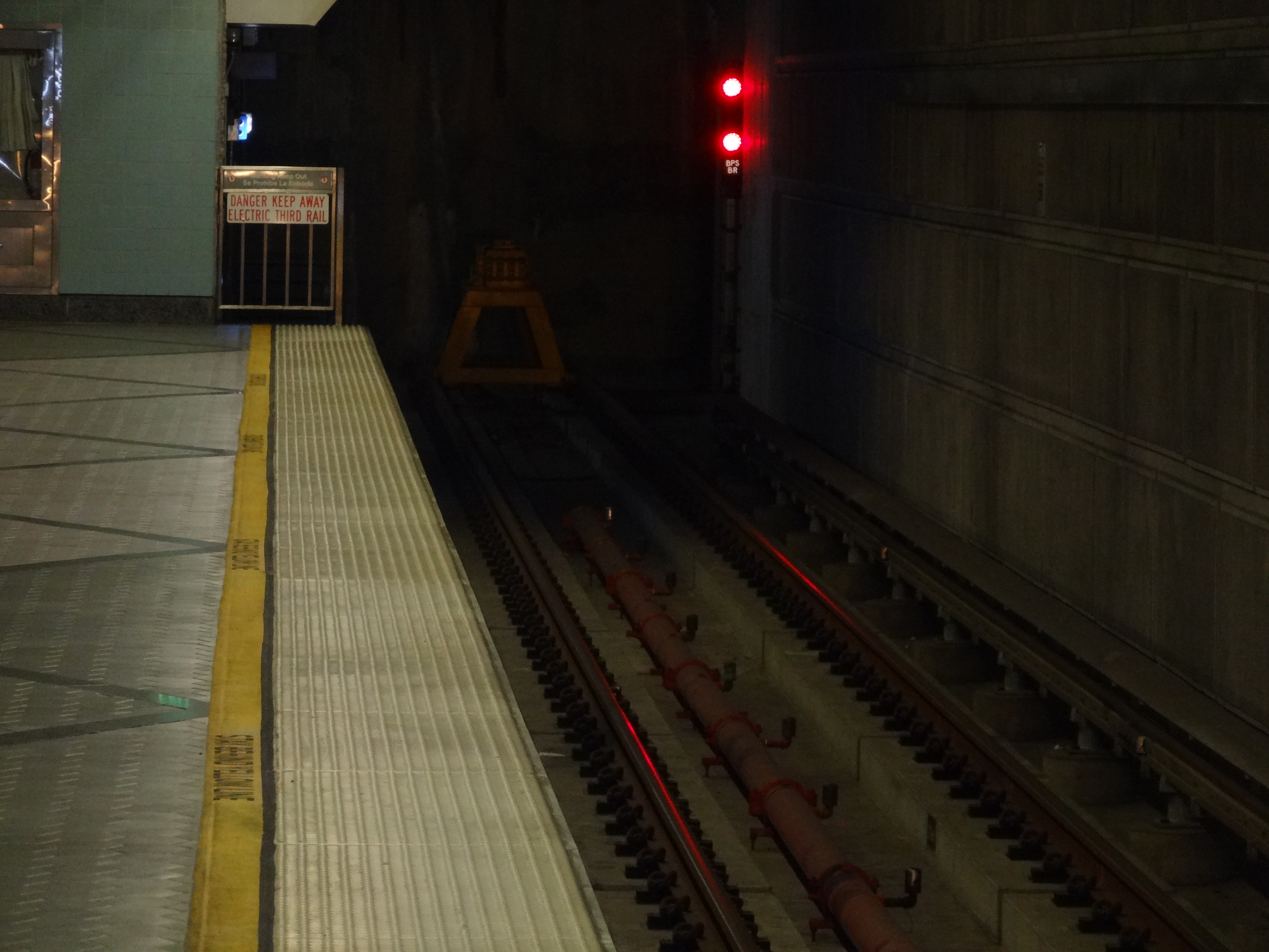 The bumper block at the end of the tracks at Wilshire/Western station on the Los Angeles Metro.